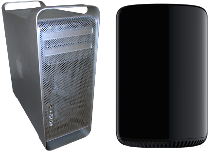 The two generations of Apple Mac Pro computers.